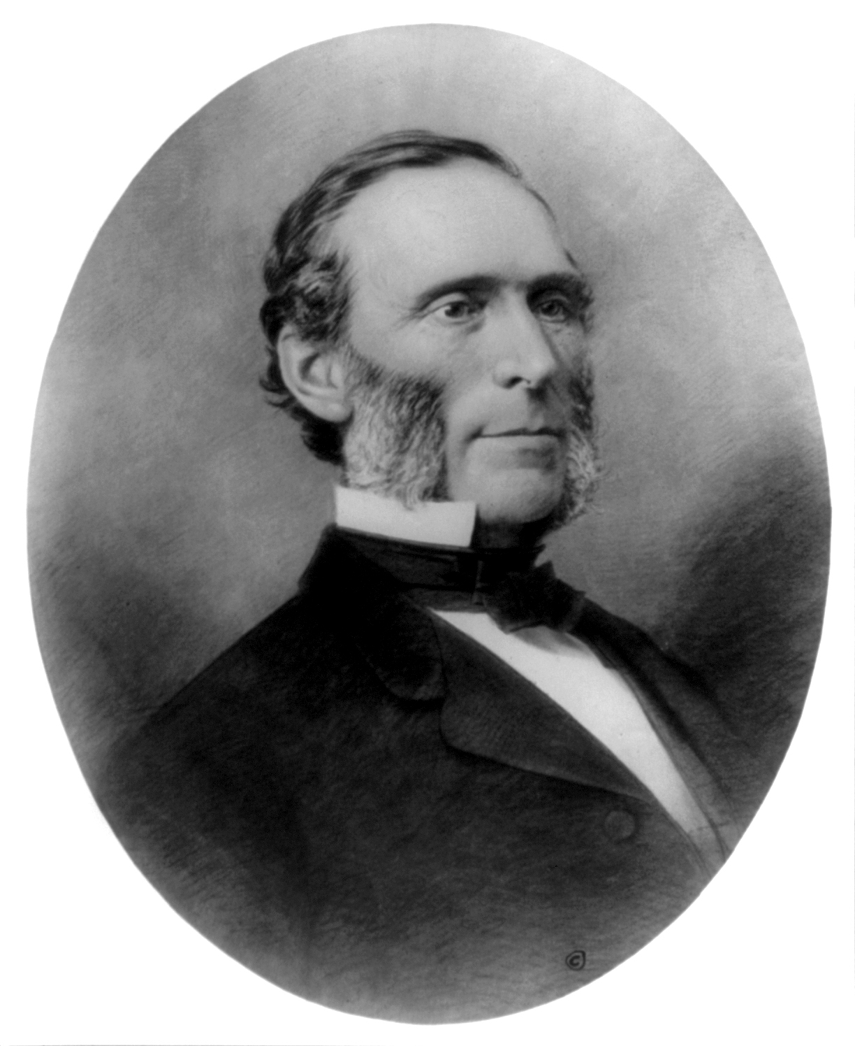 Austin Blair, Governor of Michigan, 1861–65